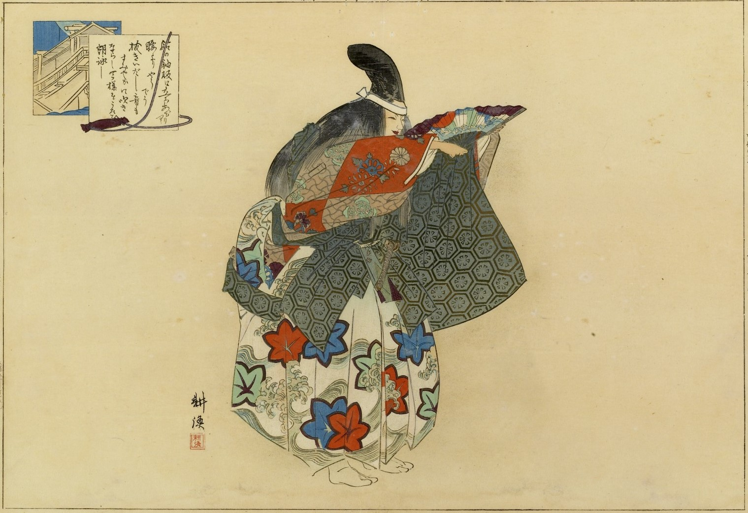 Scene out of Nô-drama "Kiyotsune" by Seami